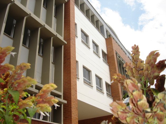 Universidad Industrial de Santander - Faculty of Human Sciences